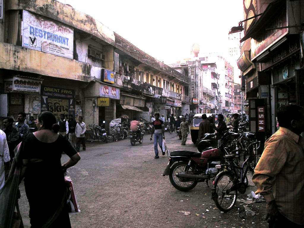 A street in Valsad, India.